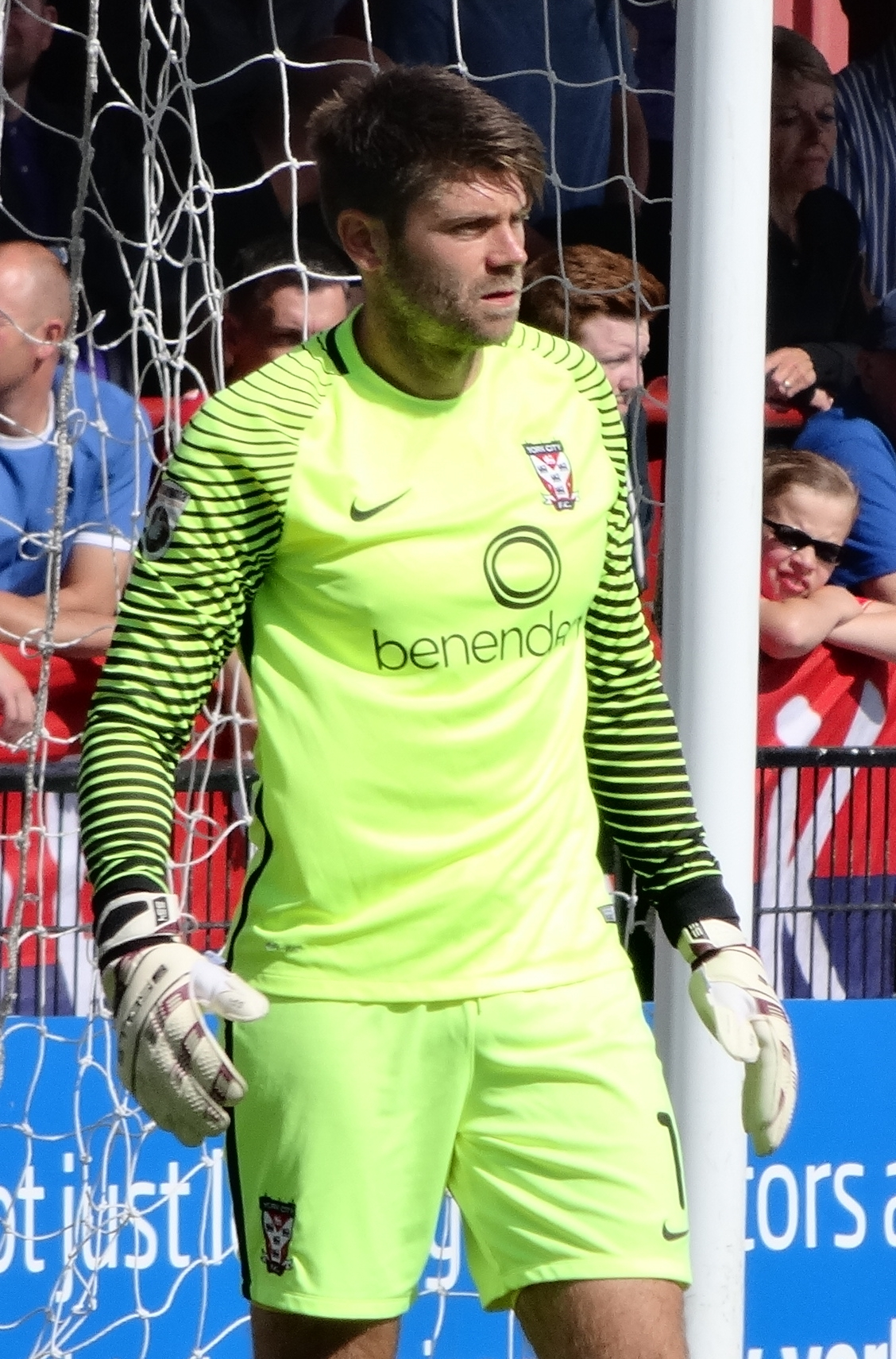 Scott Flinders playing for York City against Boreham Wood at Bootham Crescent, York on 13 August 2016